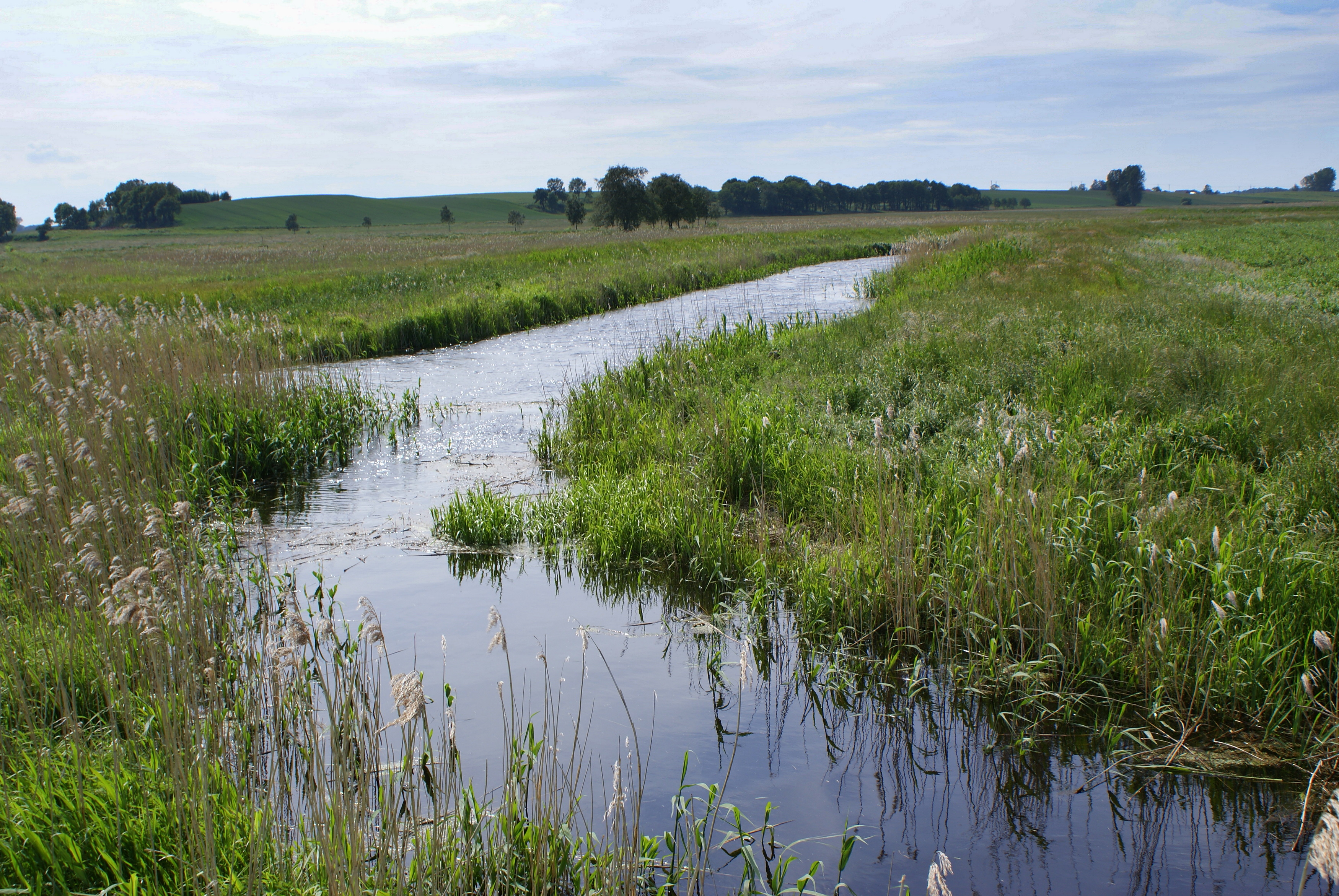 Strużka (Błotnica tributary), Poland